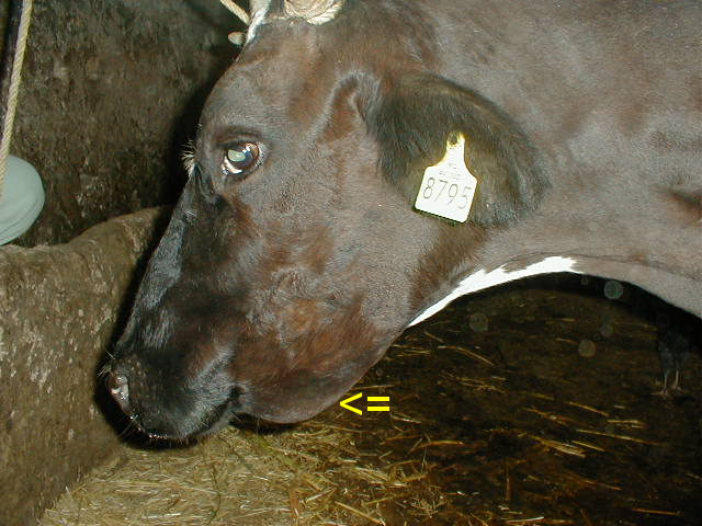 submandibular edema in a cow with liver fluke